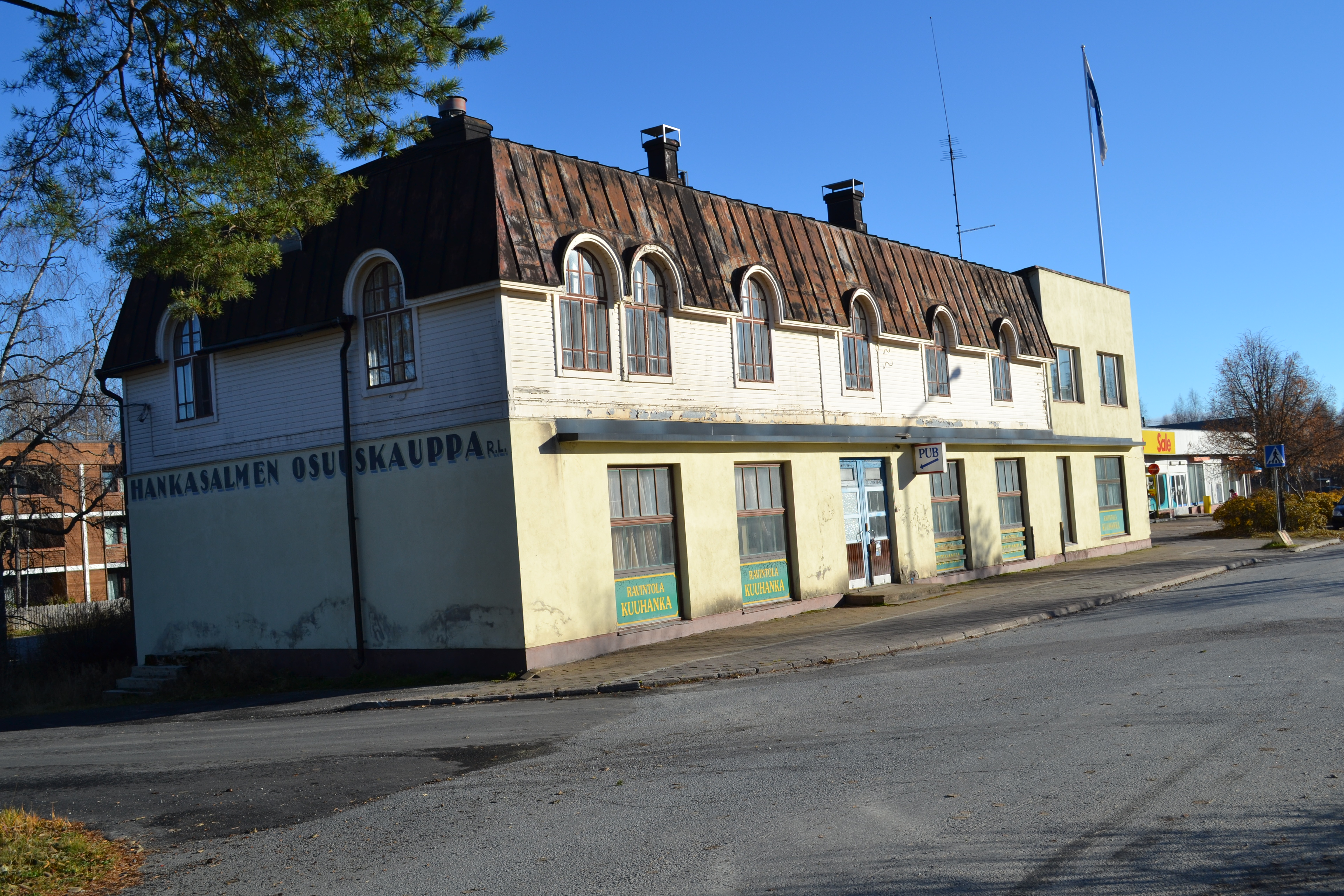 Former co-operative store in Hankasalmi